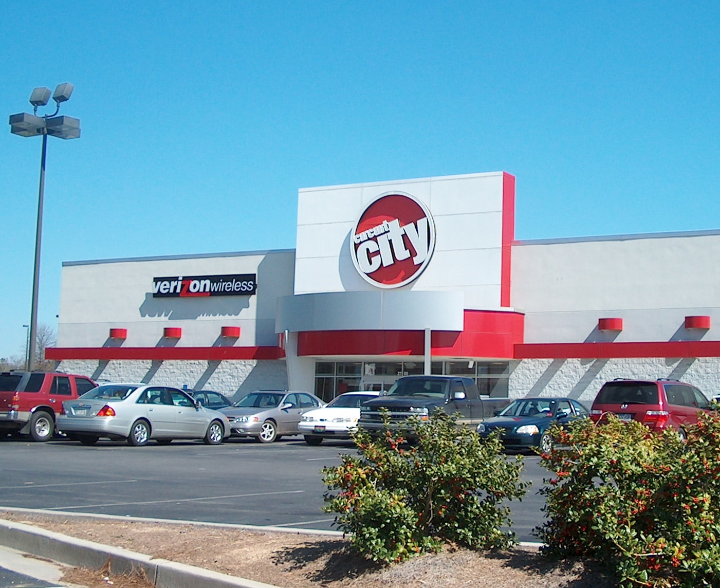 One of Circuit City stores (in Rome, Georgia) photed by Cculber007